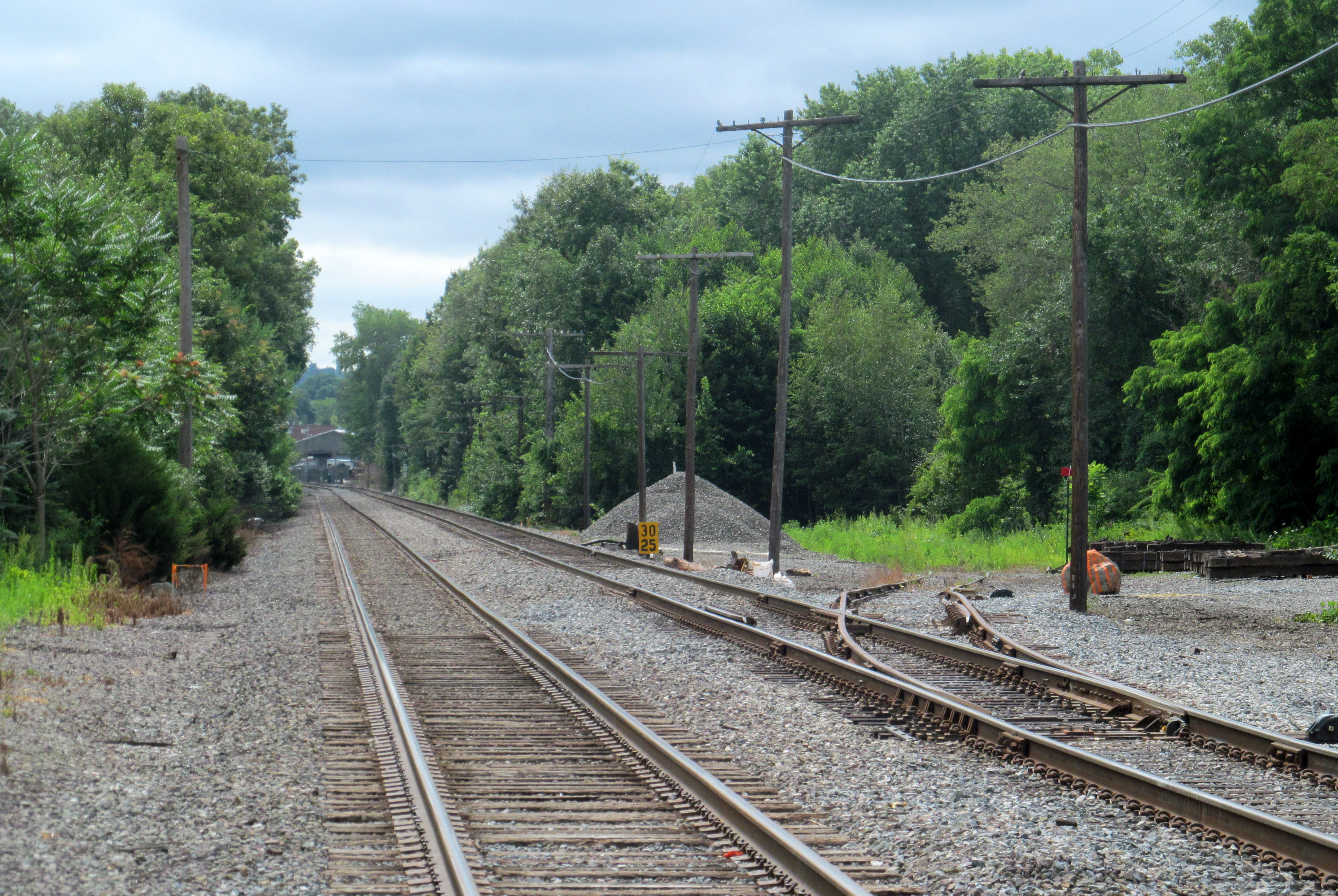 Former switch to the Central Mass Branch just west of the former site of Clematis Brook station, photographed in July 2015. The switch was added in 1952 when Central Mass tracks east of here were removed.